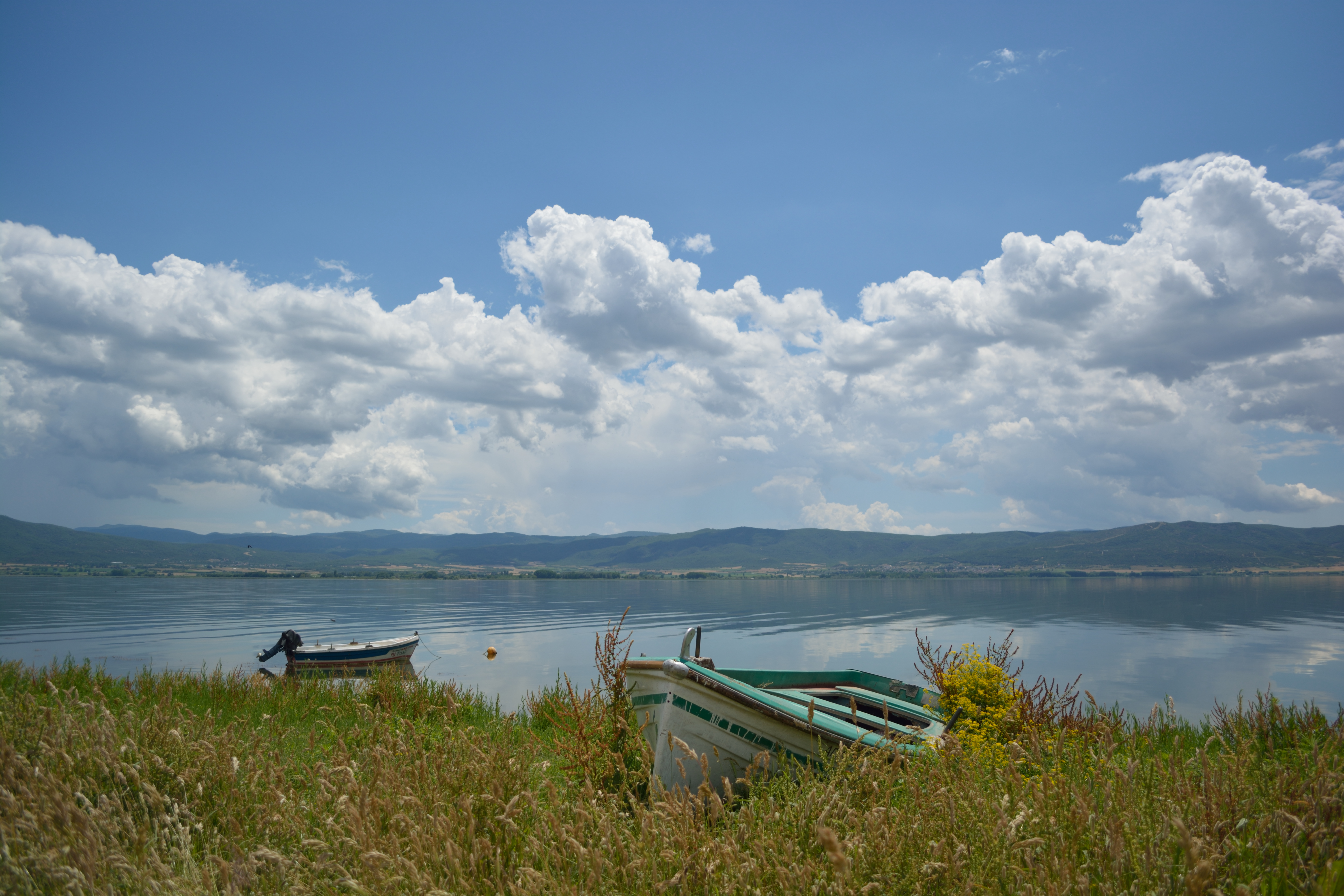 A picture that was taken at lake Volvi, Thessaloniki, Greeece.